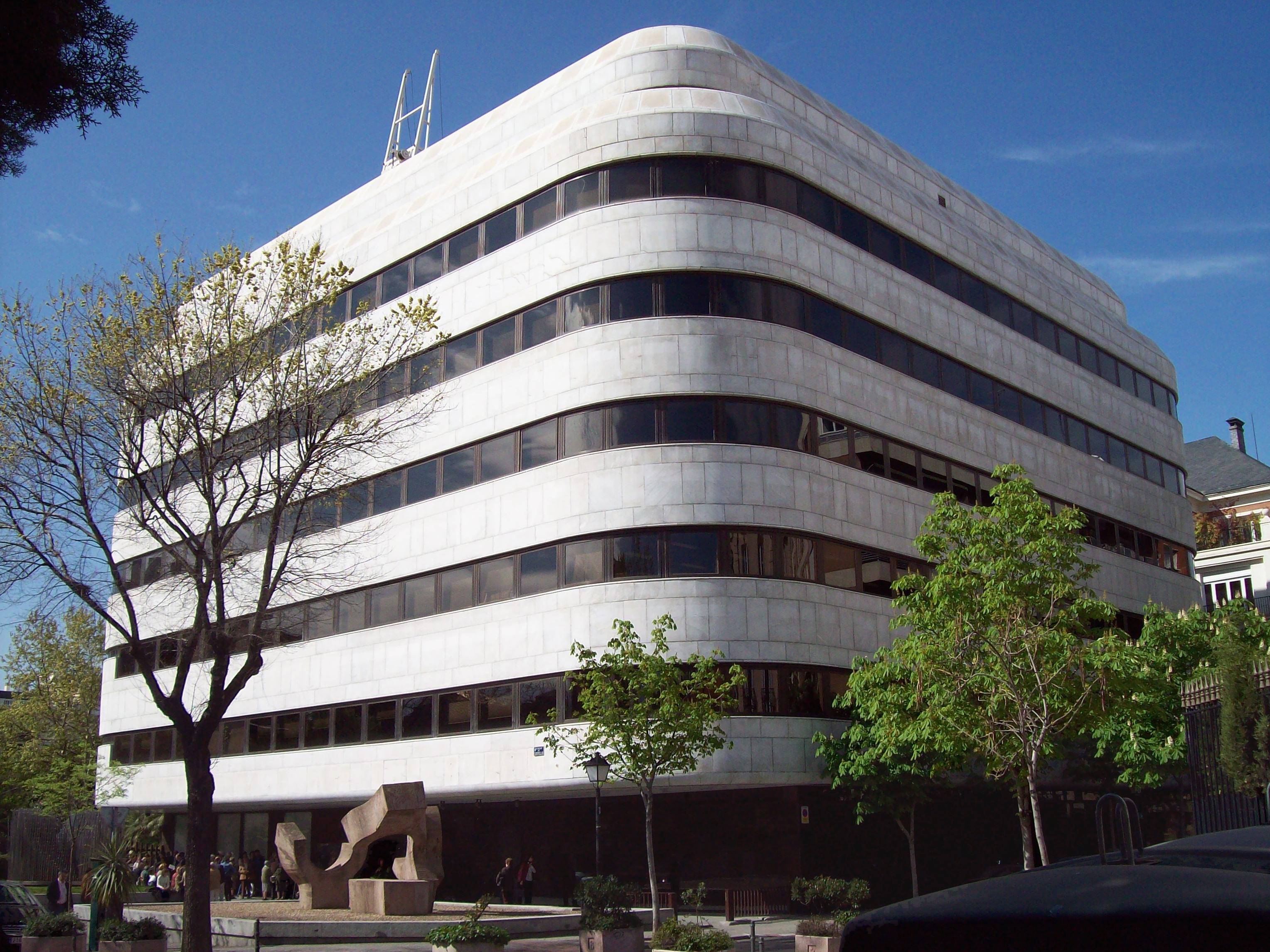 Headquarters of Juan March Foundation, at 77 Calle de Castelló (street) in Salamanca district in Madrid (Spain). Building was projected in 1971 by José Luis Picardo Castellón and built from 1972 to 1975.